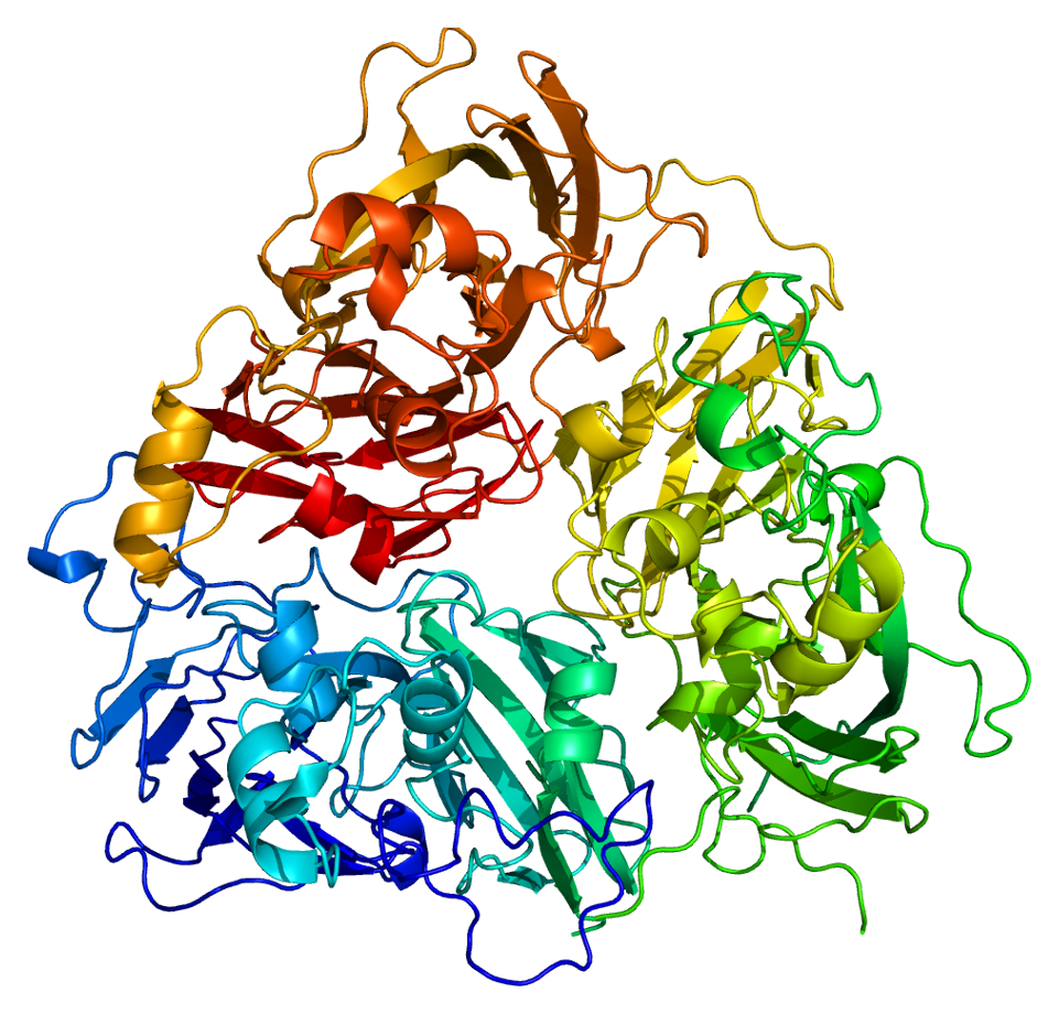 Structure of the CP protein. Based on PyMOL rendering of PDB 1kcw.